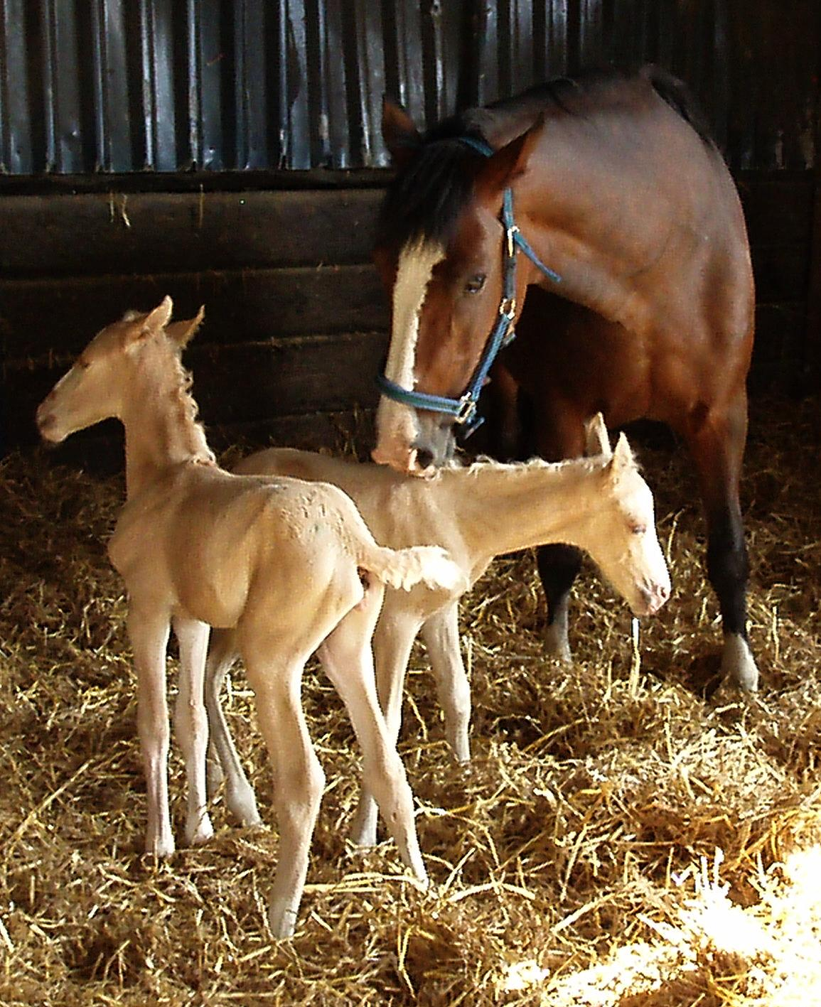 Twin Foals